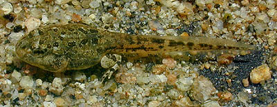 Bufo californicus